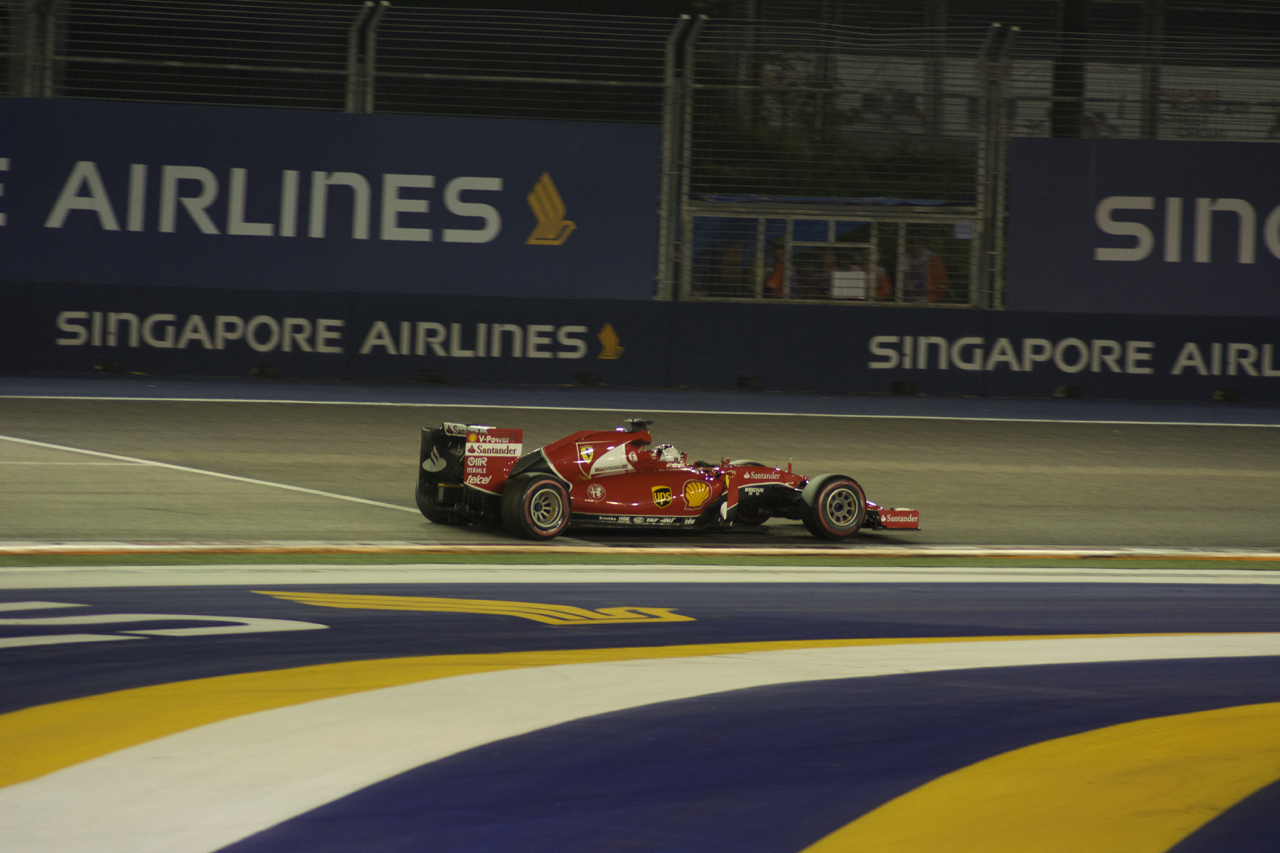 Sebastian Vettel at the 2015 Singapore GP